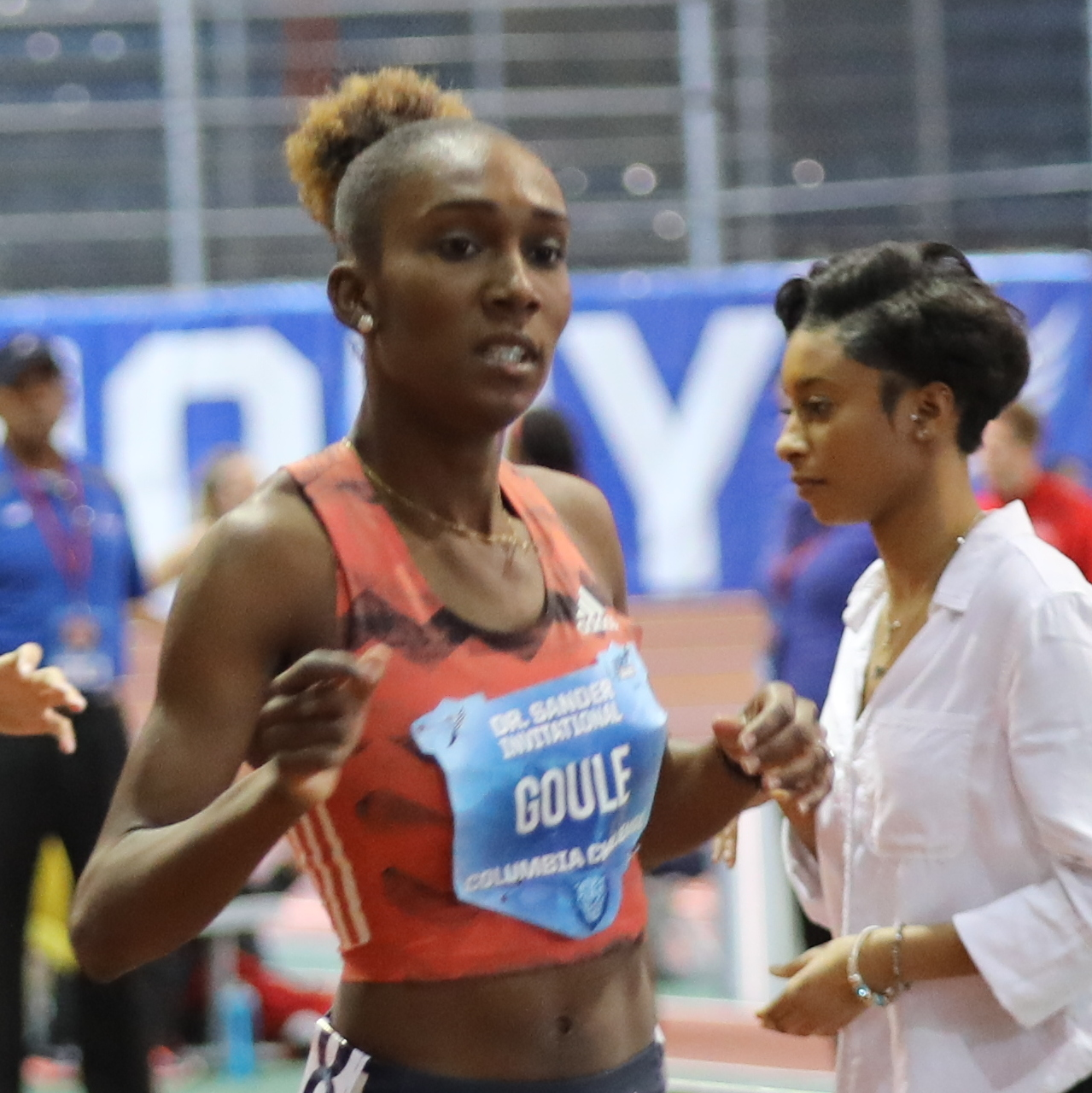 Natoya Goule and Laura Roesler by Jenaragon94